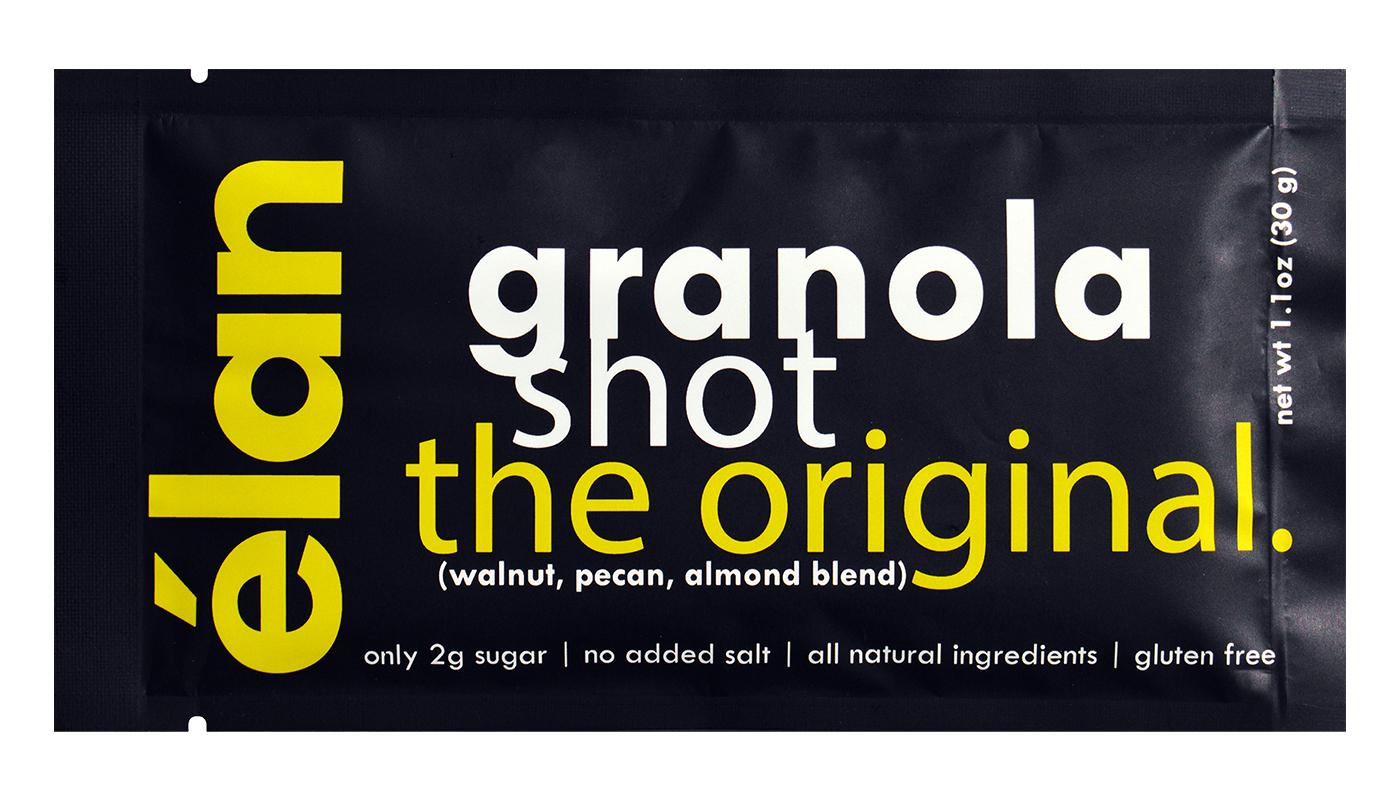 New smaller packaging styles